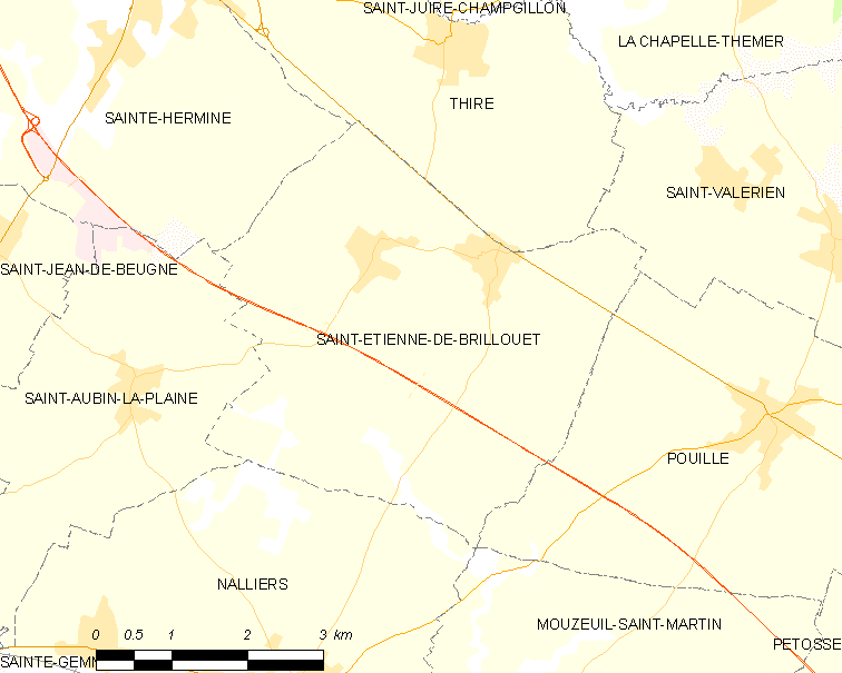 Map of French municipality Saint-Étienne-de-Brillouet